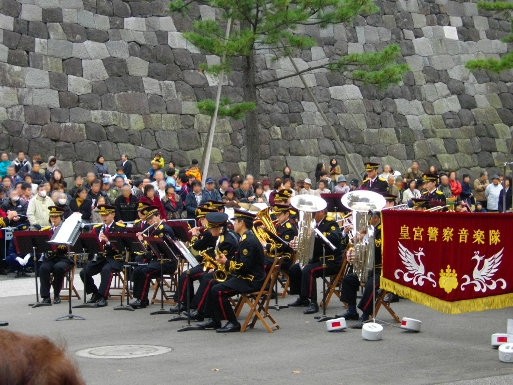 Imperial Guards Music Band